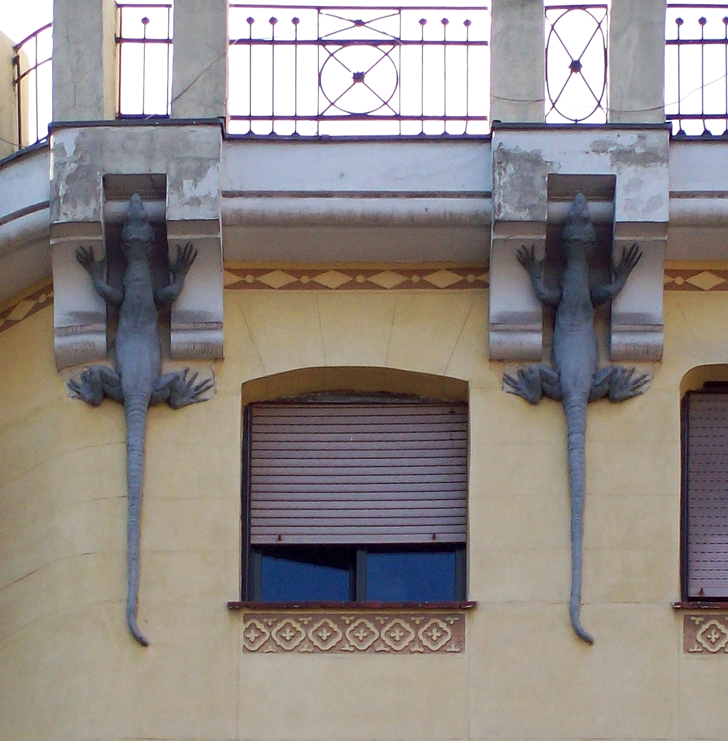 Detail of the façade of Casa de los Lagartos (literally "Alligators' House") at 1st Calle de Mejía Lequerica (street, Centro district) in Madrid (Spain). Building was projected in 1911 by Benito González del Valle and built from 1911 to 1912.